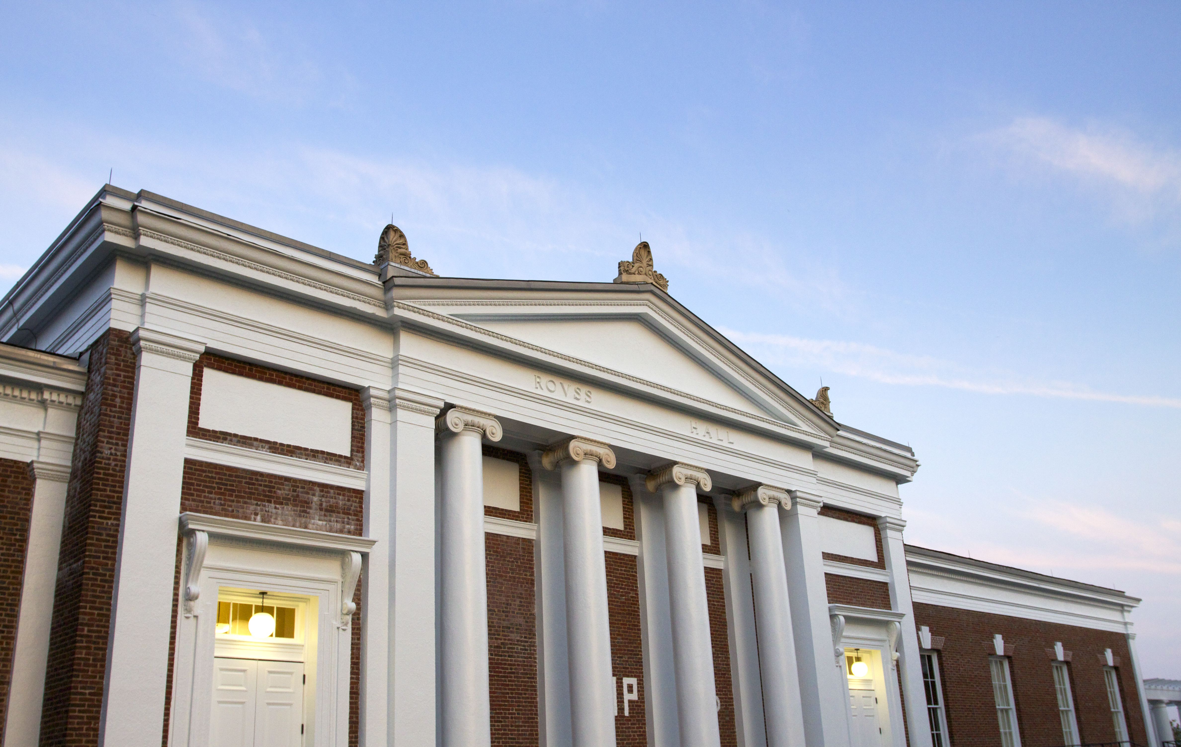 Rouss & Robertson Halls are the home of the McIntire School of Commerce at the University of Virginia.